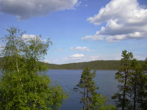 Inari lake in June